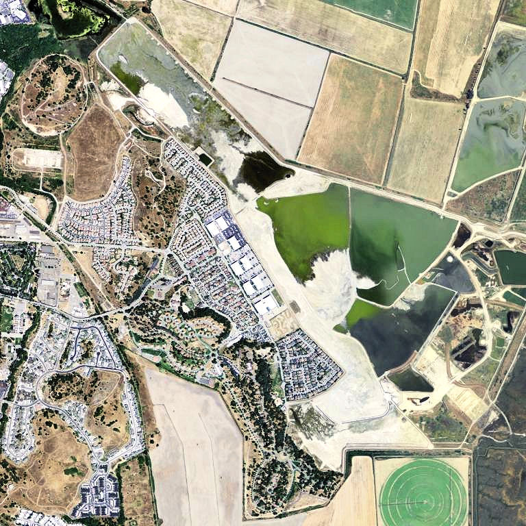 USGS orthophoto showing location of former Hamilton Air Force Base, also known as Hamilton Army Airfield, now Hamilton Field, in California, United States